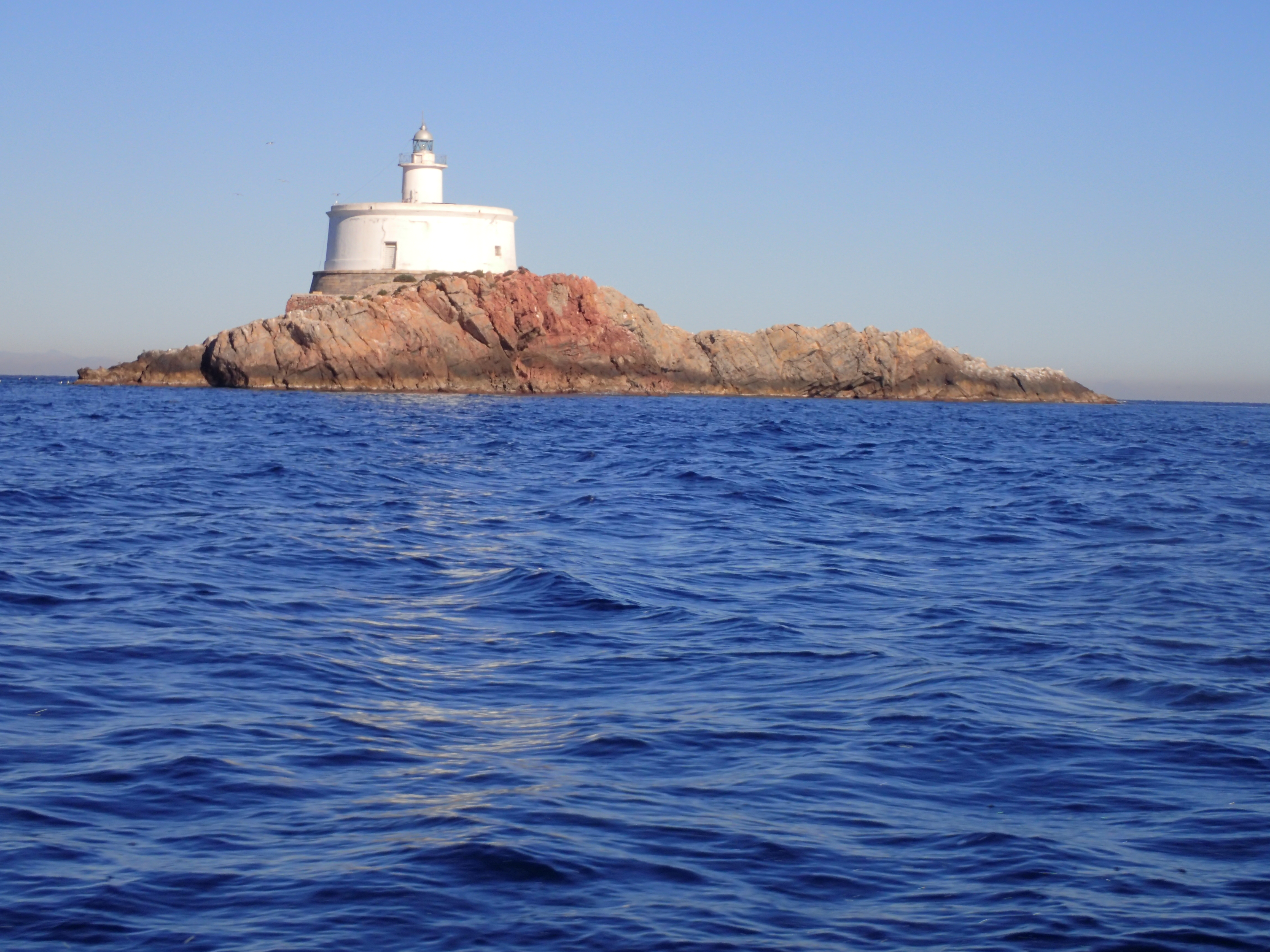 This is a photography of a Special Area of Conservation in Spain with the ID: LIC ES6200007 Islas e Islotes del Litoral Mediterráneo. ES6200007 Islas e Islotes del Litoral Mediterráneo Natura2000 entry, ES6200007 Islas e Islotes del Litoral Mediterráneo EEA entry